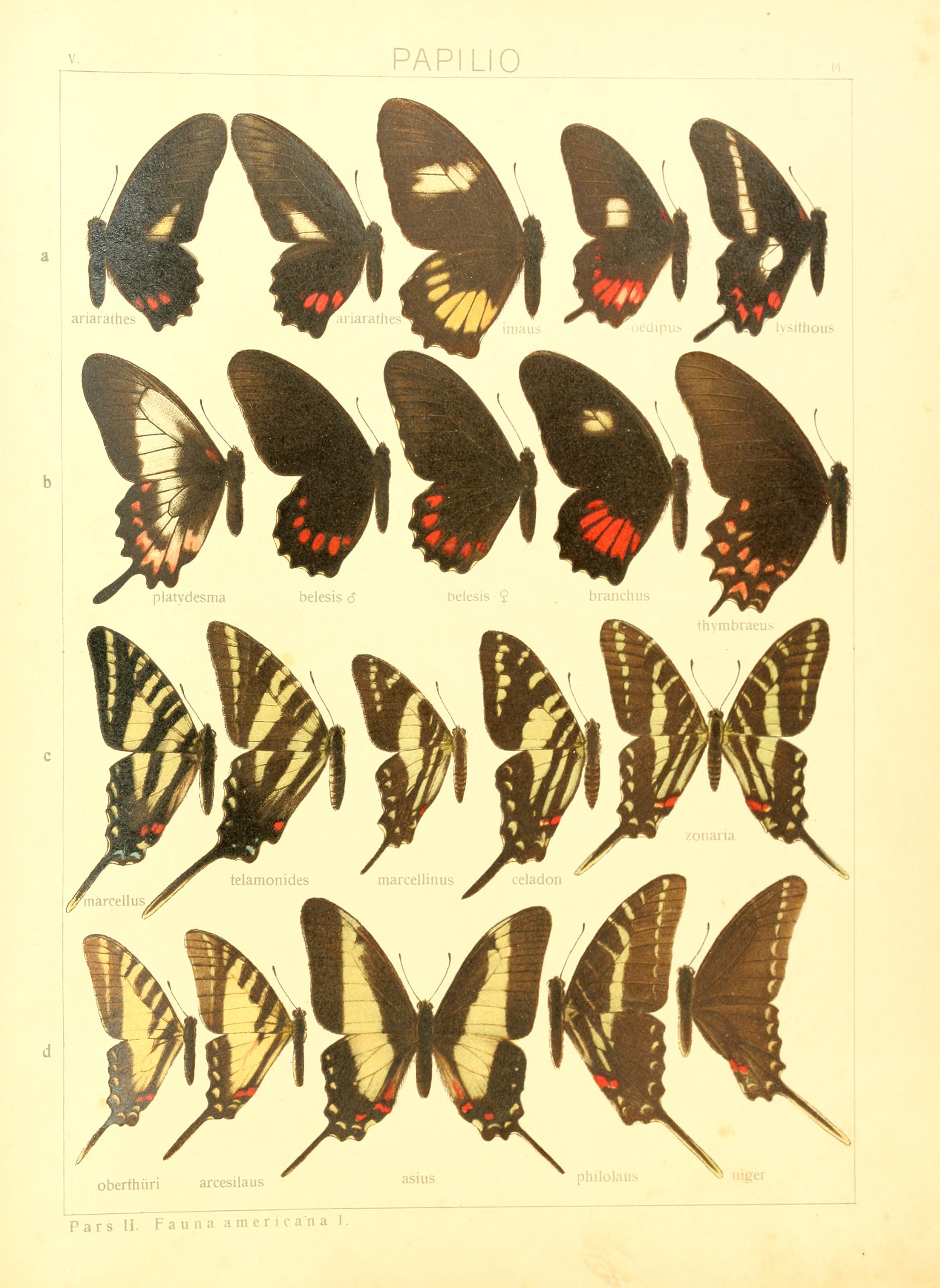 a.2.: Dual-spotted(?) Swallowtail, upperwing b. Papilio lysithous Hbn. f. platydesma R. & J. = Mimoides lysithous harrisianus (Swainson, 1822), upperwing Papilio belesis Bates = Mimoides ilus branchus (Doubleday, 1846) f. belesis, ♂, upperwing Papilio belesis Bates = Mimoides ilus branchus (Doubleday, 1846) f. belesis, ♀, upperwing Papilio branchus Doubl. = Mimoides ilus branchus (Doubleday, 1846), upperwing Papilio thymbraeus thymbraeus Boisd. = Mimoides thymbraeus thymbraeus (Boisduval, 1836), upperwing